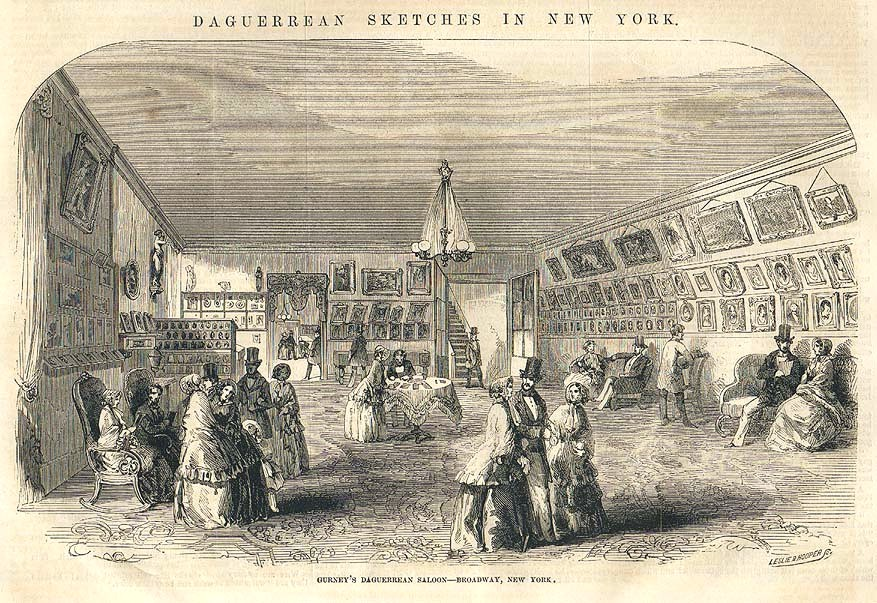 Gurney's Daguerreian Saloon at 349 Broadway, NYC